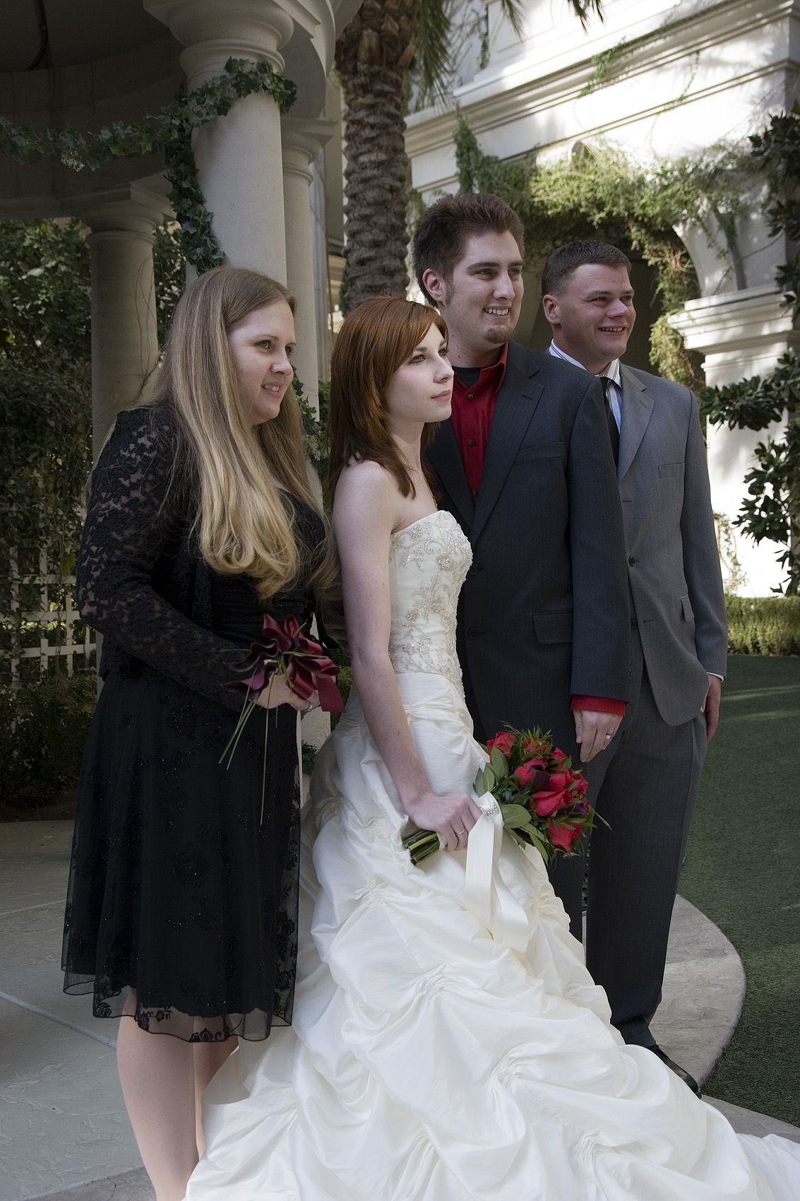 Newly weds, matron of honor, and best man